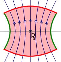 Flow box illustrating a tools used for differential equations